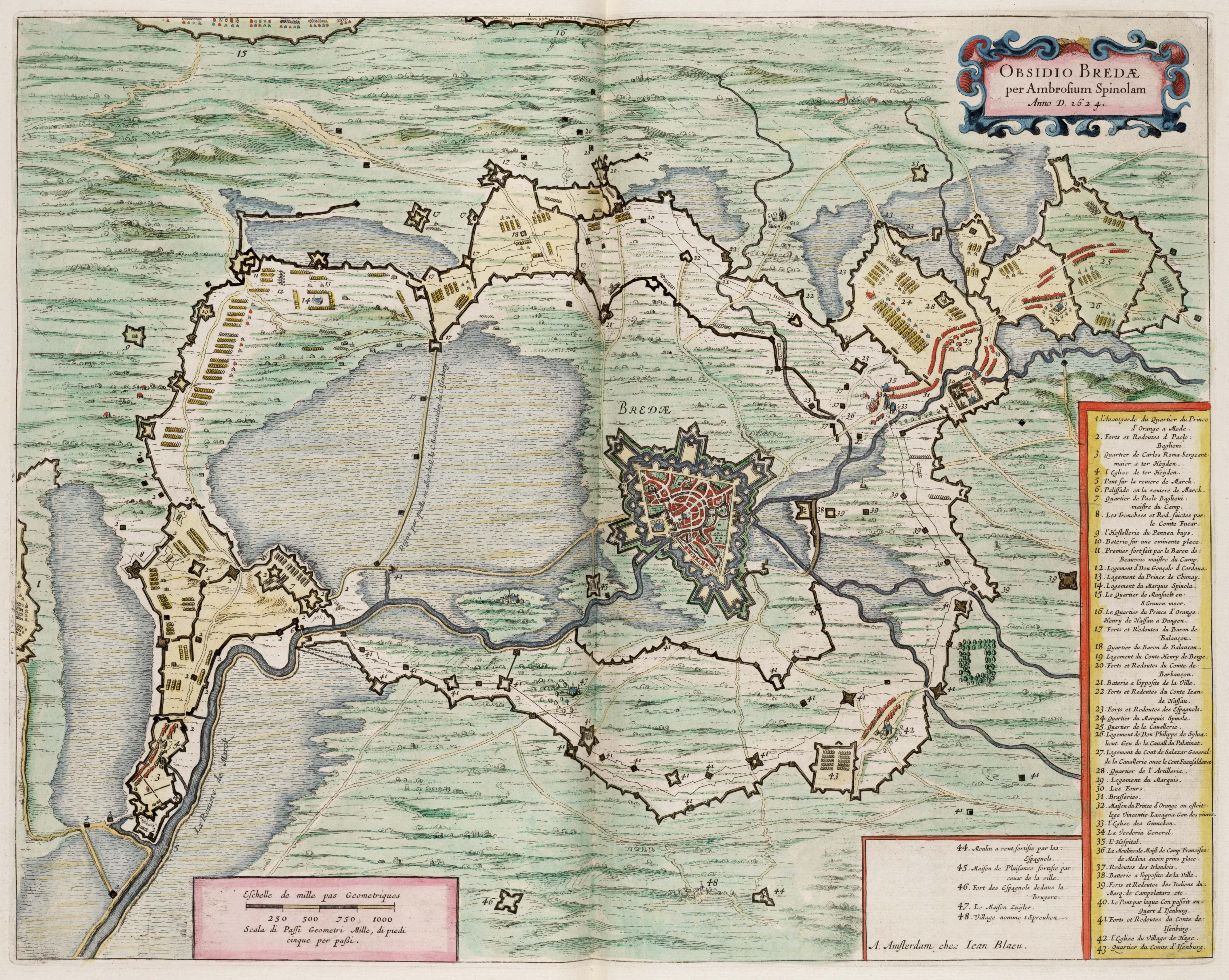 Map of the Siege of Breda (1624) by Ambrogio Spinola. (Map J.Blaeu, 1649)